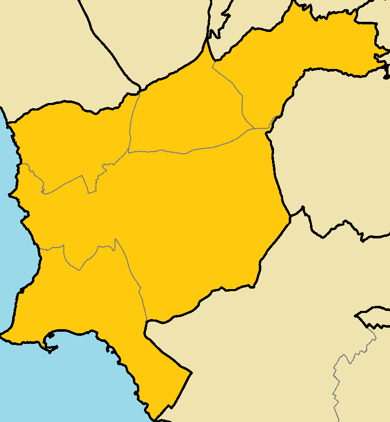 Paphos Municipality with quarters.